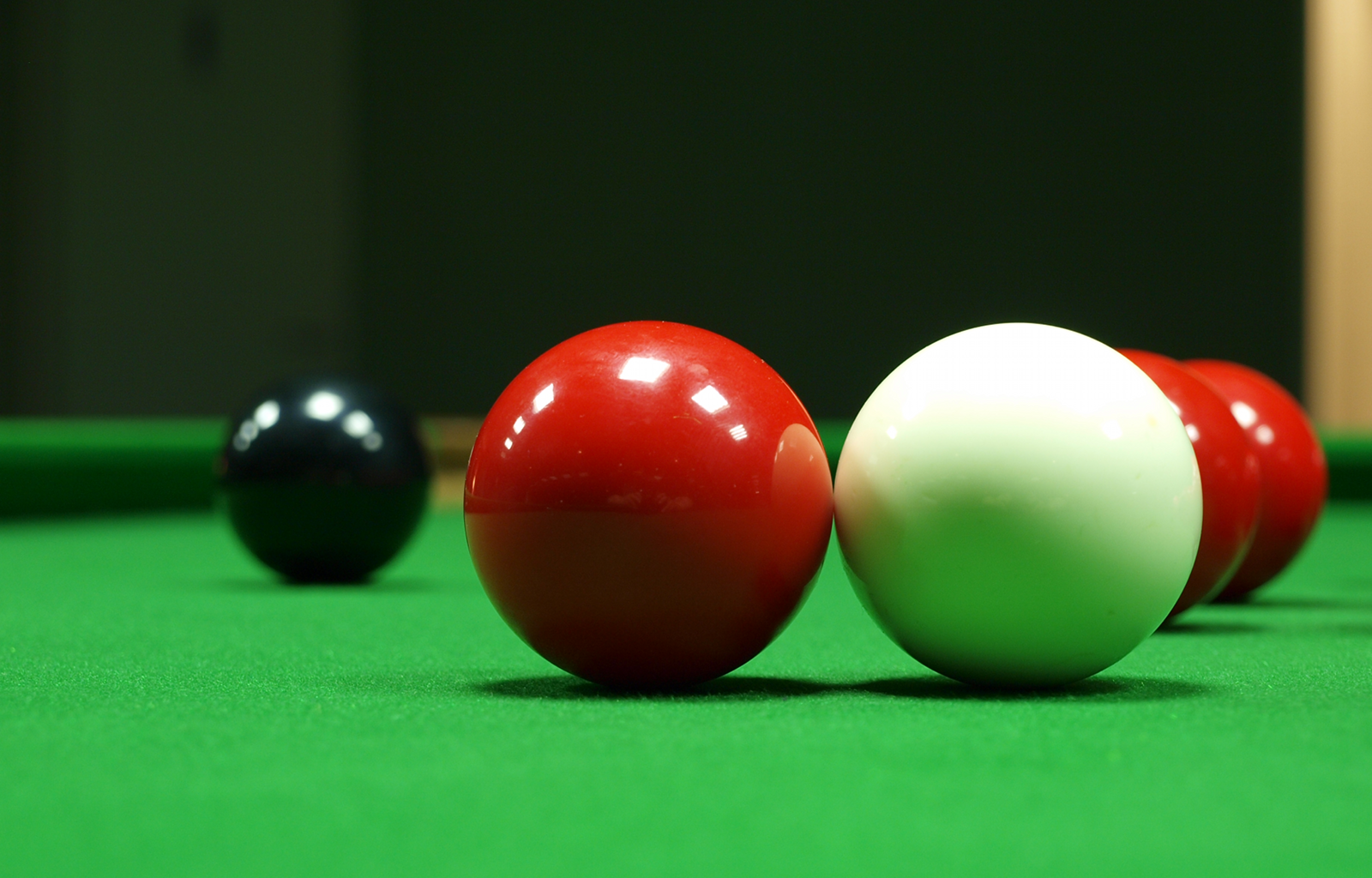 Snooker - Touching ball while red is "ball on".